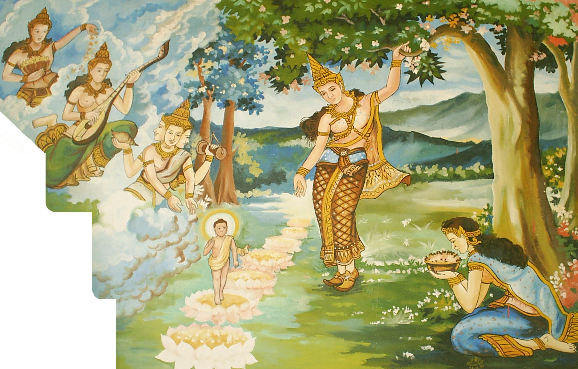 This picture depicts the birth of Gautama Buddha, in a forest at Lumbini. The legend goes that directly after his birth, he made 7 steps and proclaimed that he would end suffering and attain supreme enlightenment in this life. The Buddha's mother is holding a branch of a tree for support during birth. In the picture also some gods and some servants of can be seen.